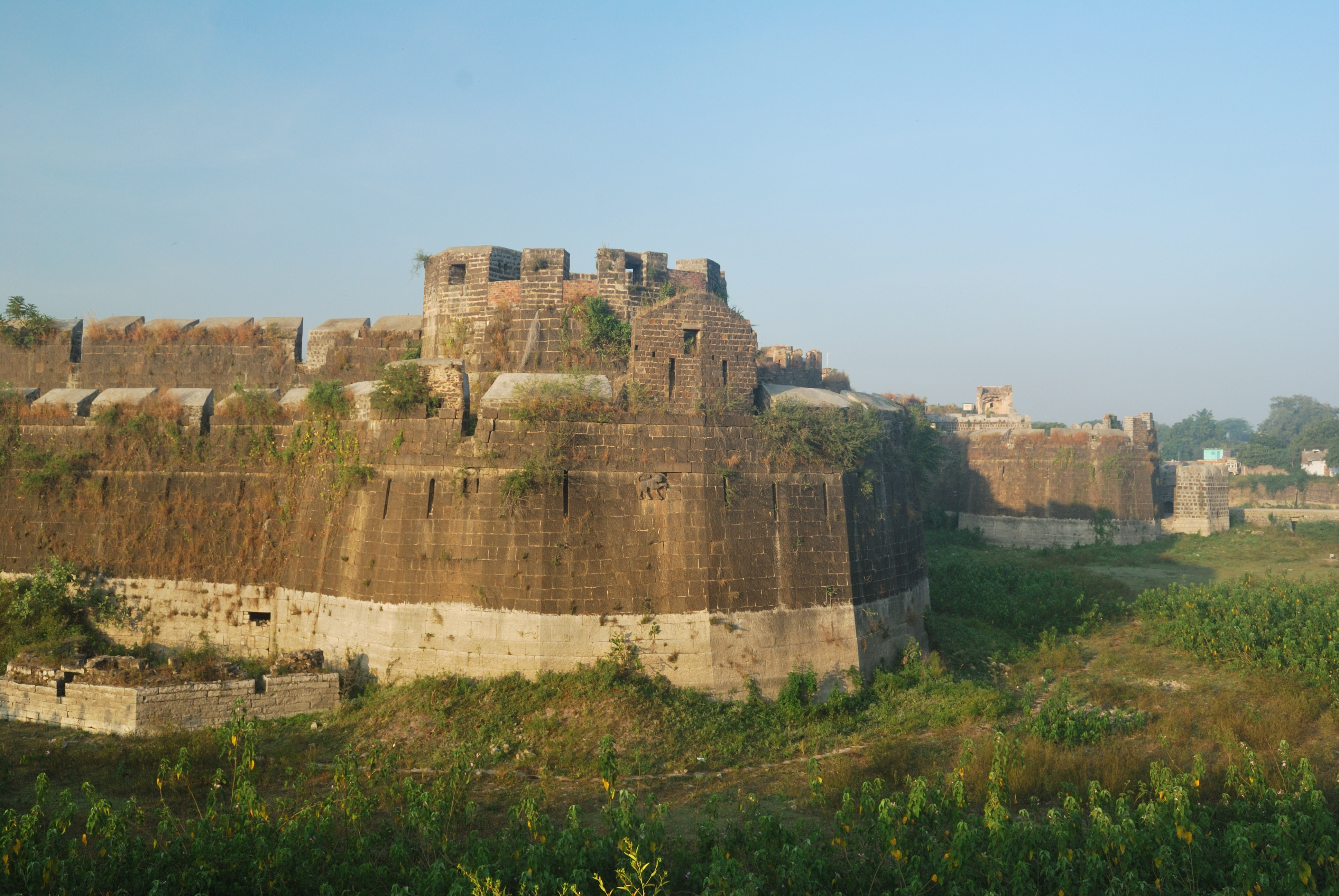 Outer walls of Kandhar Fort in Nanded district, Maharashtra, India. It's situated on the eastern rim of the town Kandhar 45 km SSW of Nanded.